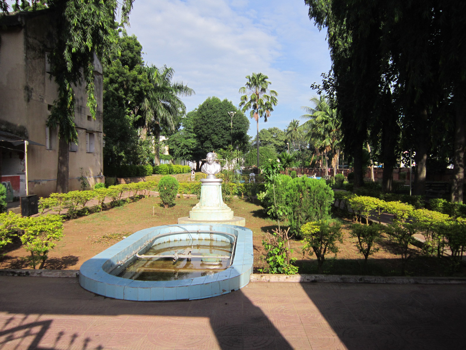 municipal park